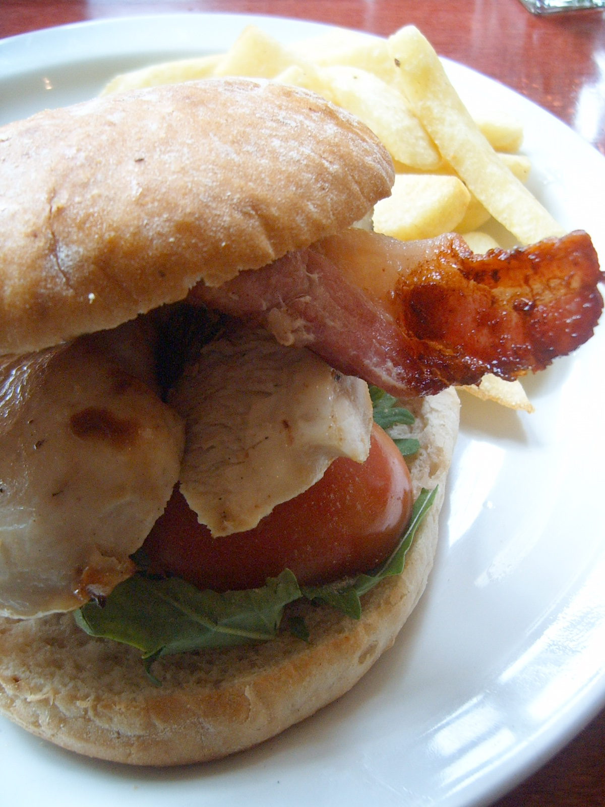 A Chicken burger served with bacon.